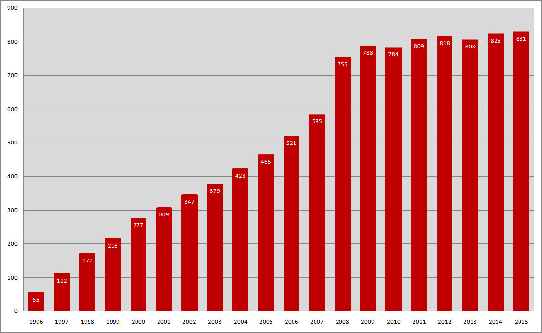 Average net monthly wages in the Republika Srpska 1996-2015 (Bosnian convertible marks)